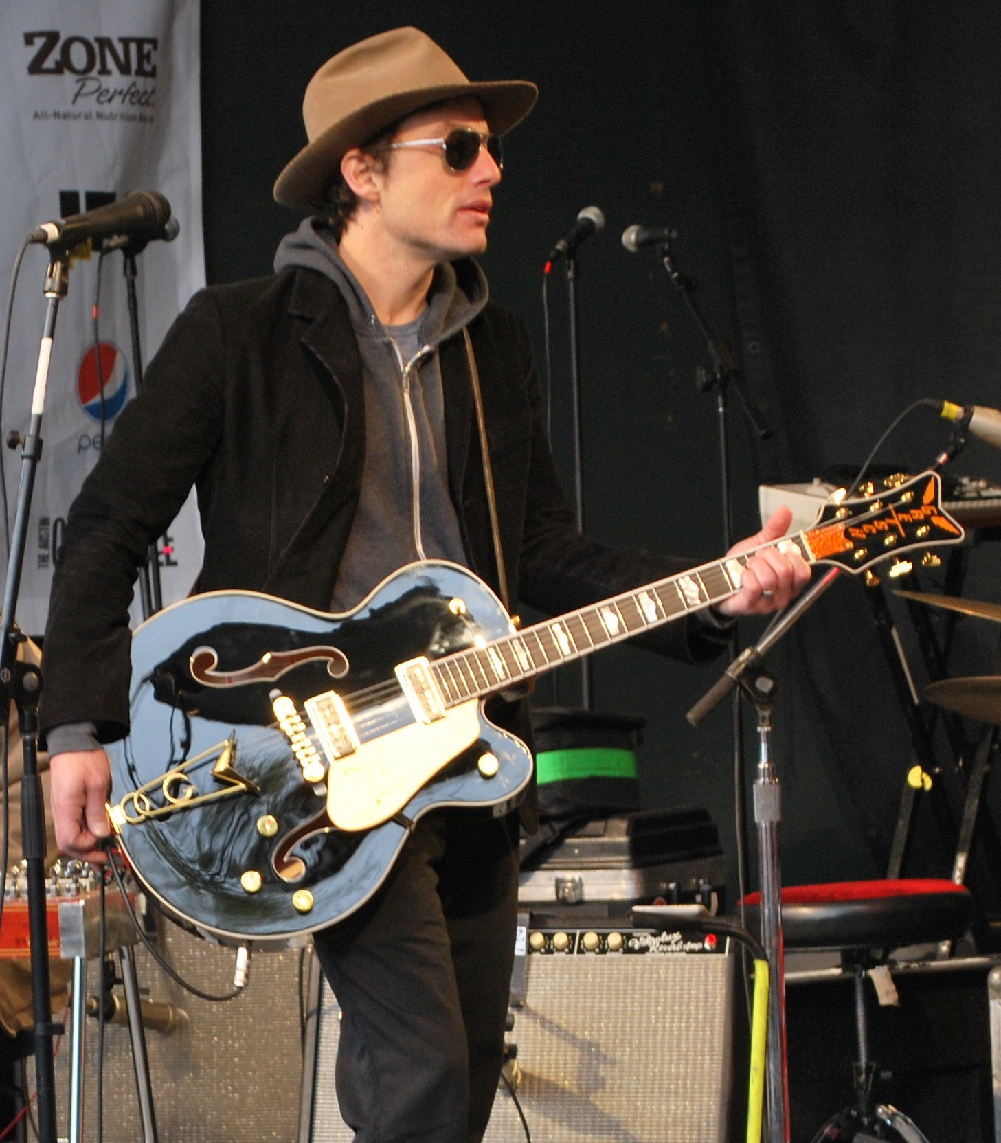 Jakob Dylan at Mr & Mrs T and Rachael Ray's Feedback Festival at SXSW 2010